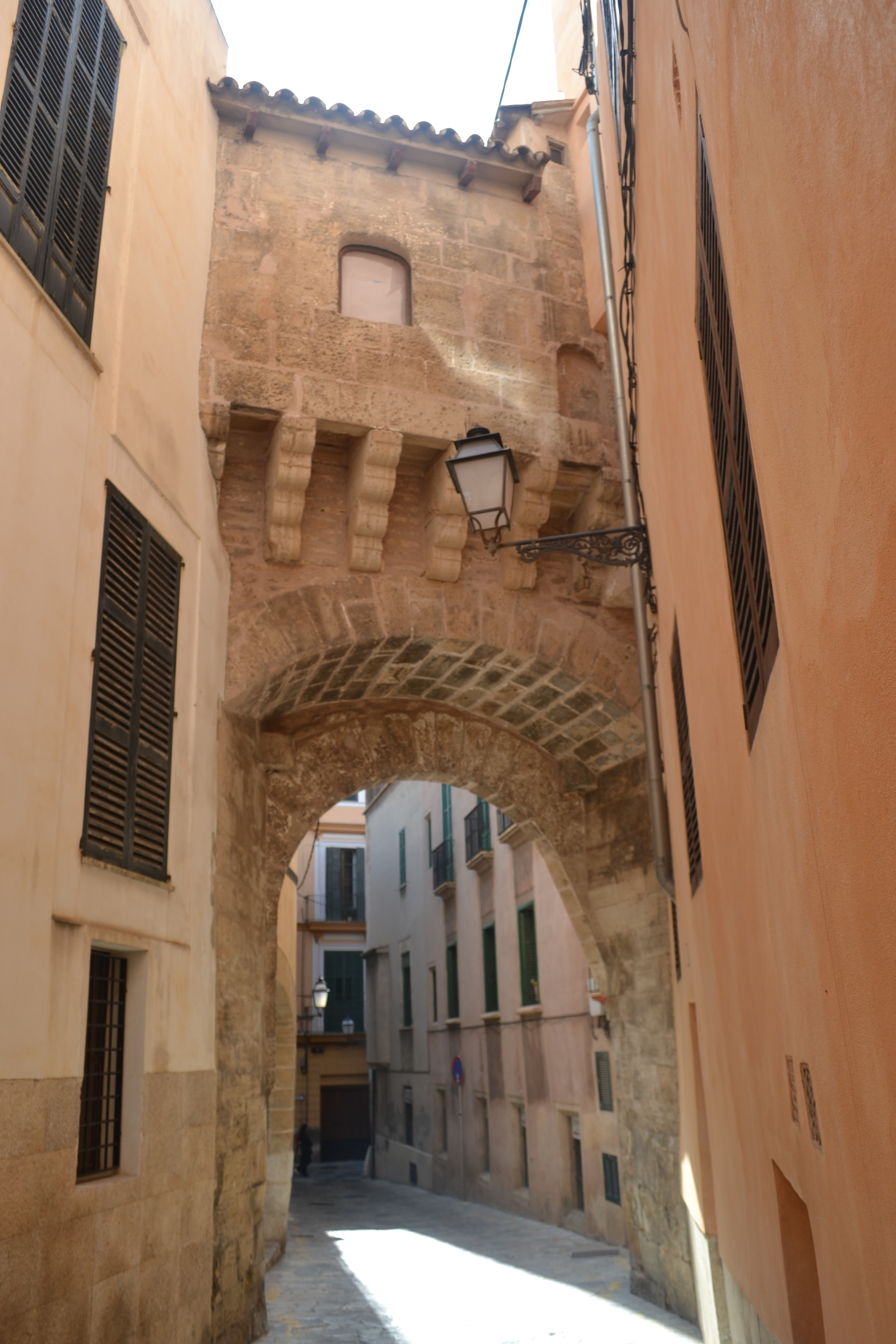 Arch of the Almudaina, Palma de Mallorca, Spain